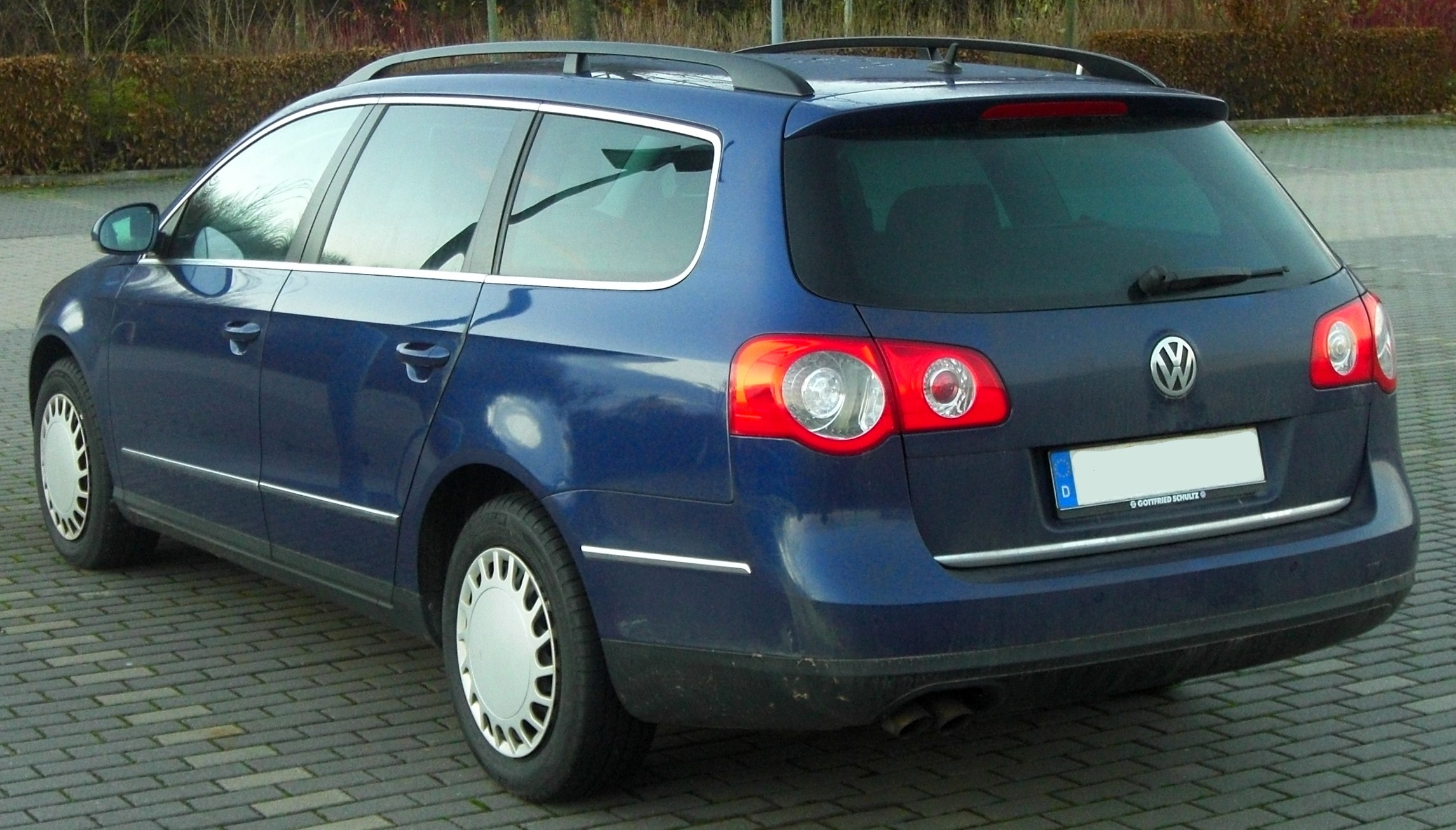 Description: VW Passat B6 Variant Source: Matthias Other Version(s)